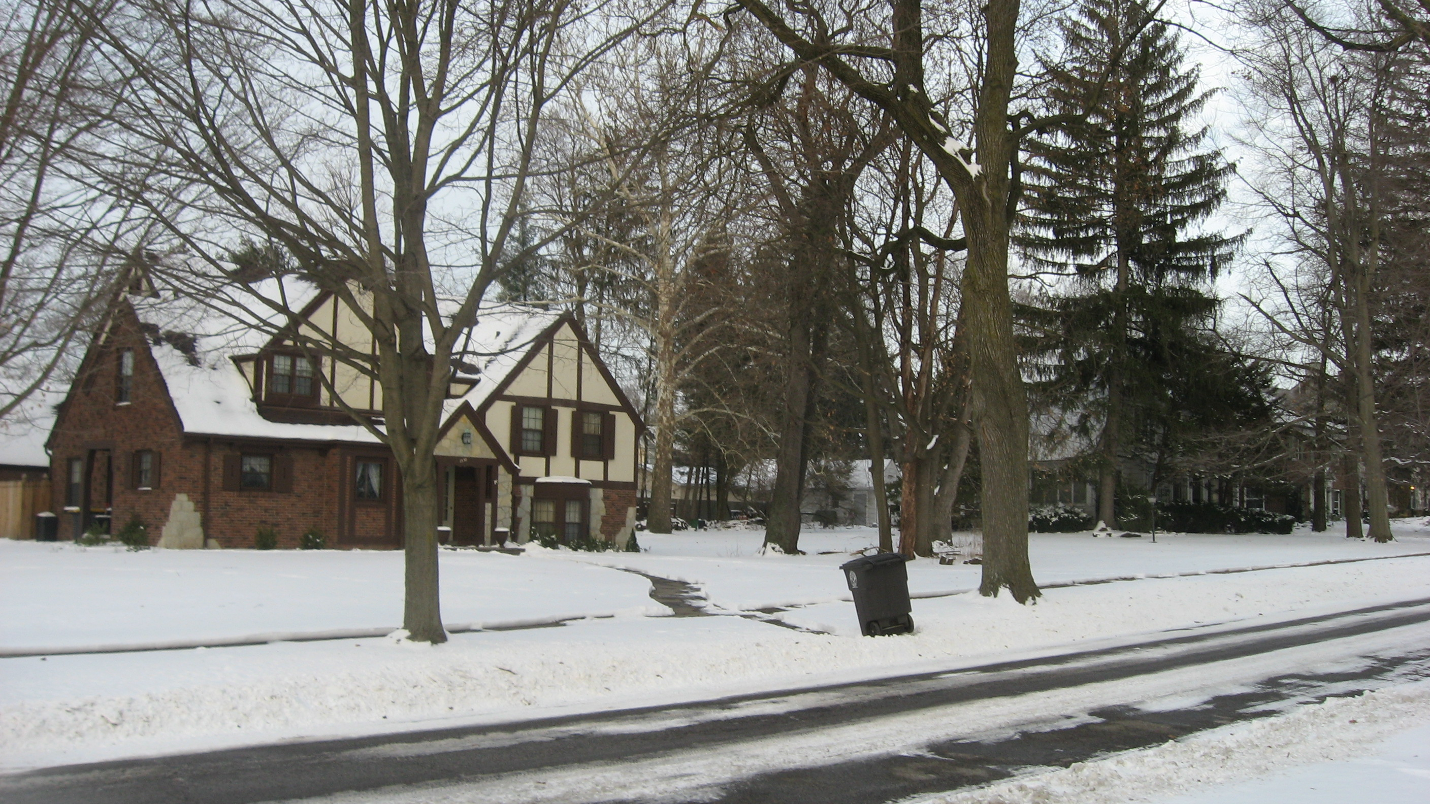 Houses at 1330 (left) and 1308 (right) Illsley Drive in Fort Wayne, Indiana, United States. Built in 1939 and 1925 respectively, they are part of the Illsley Place-West Rudisill Historic District, a historic district that is listed on the National Register of Historic Places.